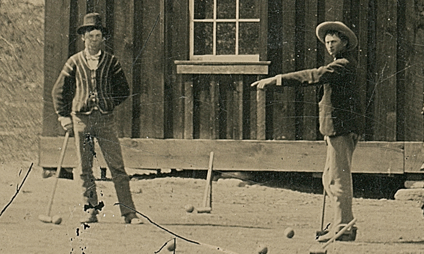 A detail from a 4×5-inch photo depicting Billy the Kid, left, playing croquet in New Mexico in 1878